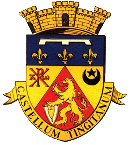 Coat of Arms of Orléansville (nowadays : Chlef), in Algeria.